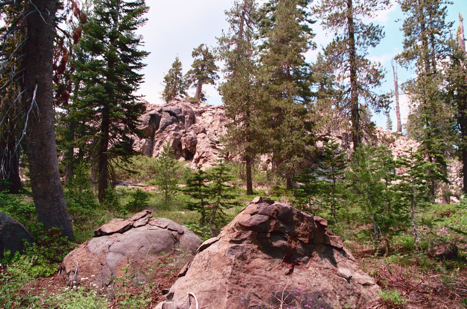 Rock wall formation — in the Caribou Wilderness Area of Lassen National Forest, Northern California.